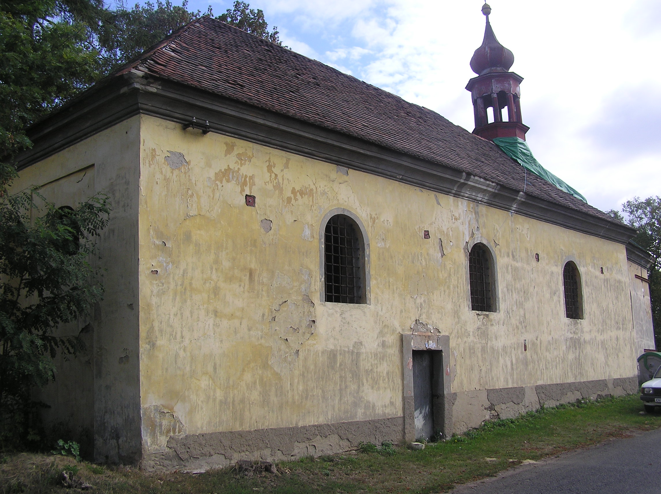 Church of Saint Lawrence in Hořetice